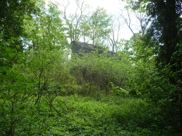 Part of the remains of Castell Blaenllynfi near Bwlch, Powys